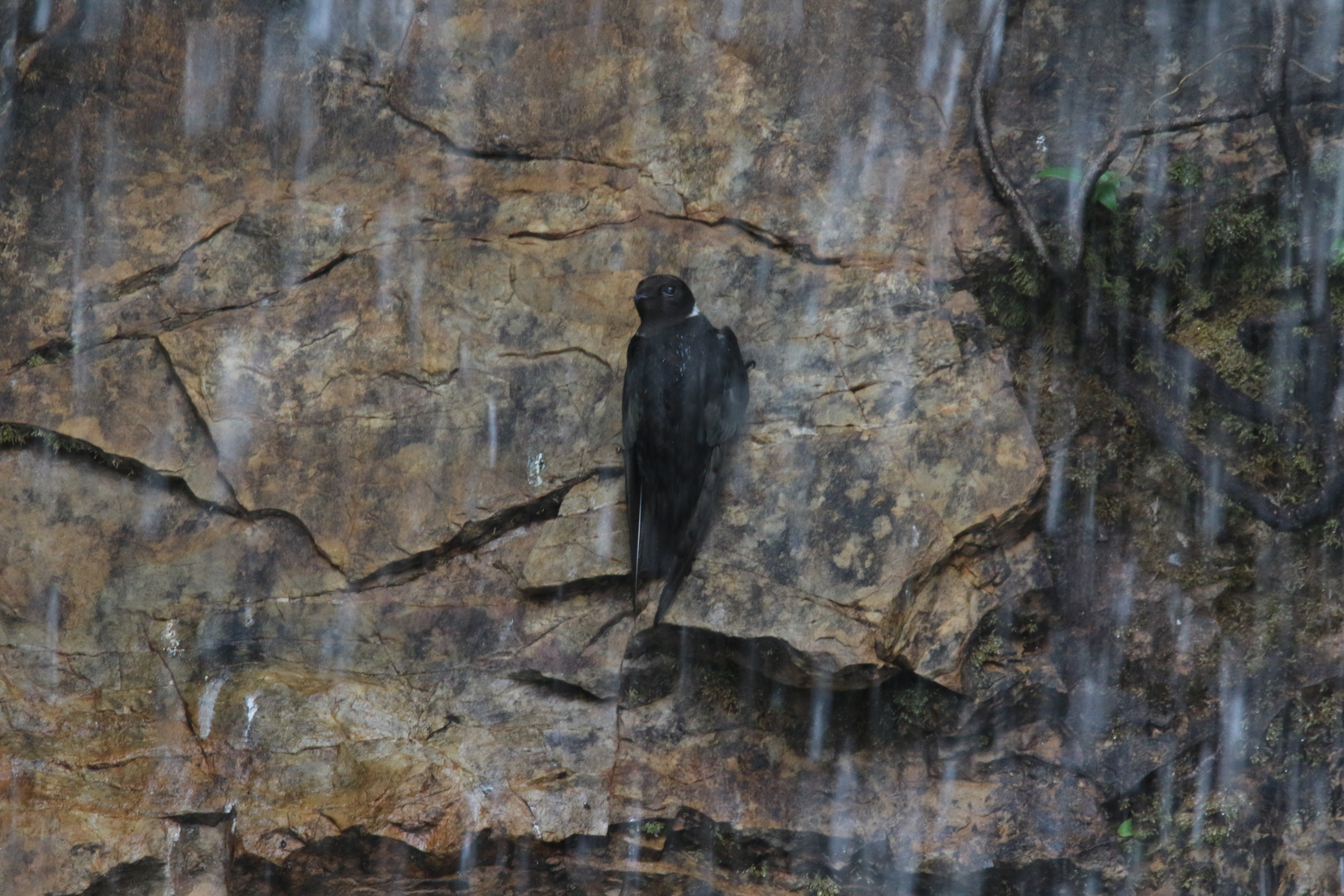 Streptoprocne zonaris (Shaw, 1796), White-collared Swift, Chapada Imperial, Federal District, Brazil, 28 October 2016